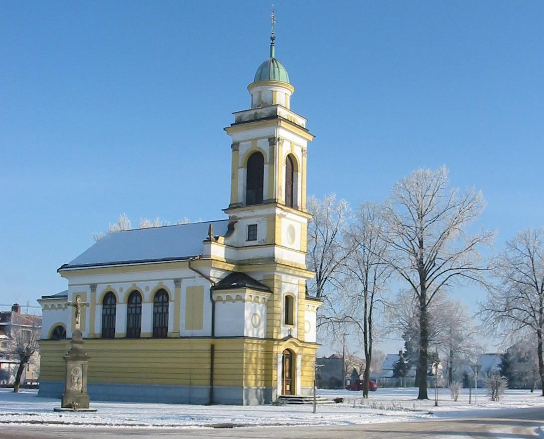 Chapel (sic!) of the Holy Trinity from 1900 in Lhota pod Libčany, Czech Republic.